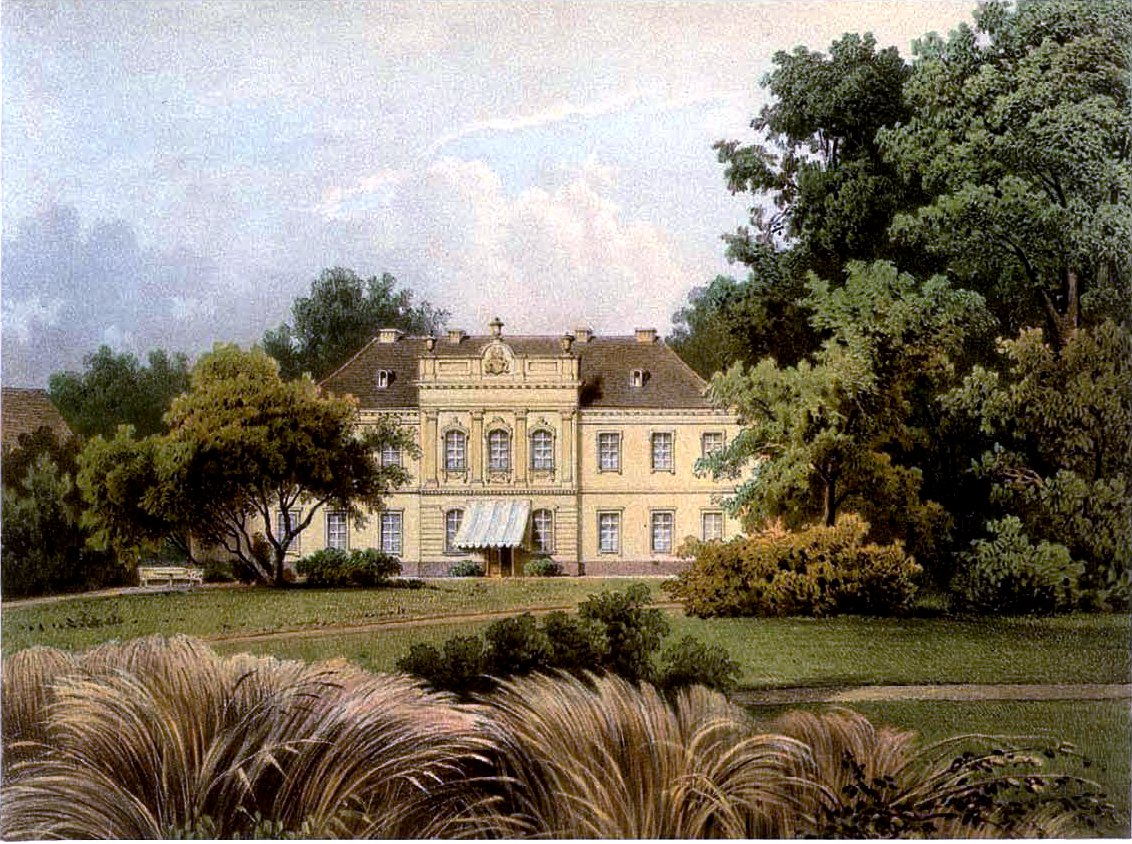 Manor in Darskowo